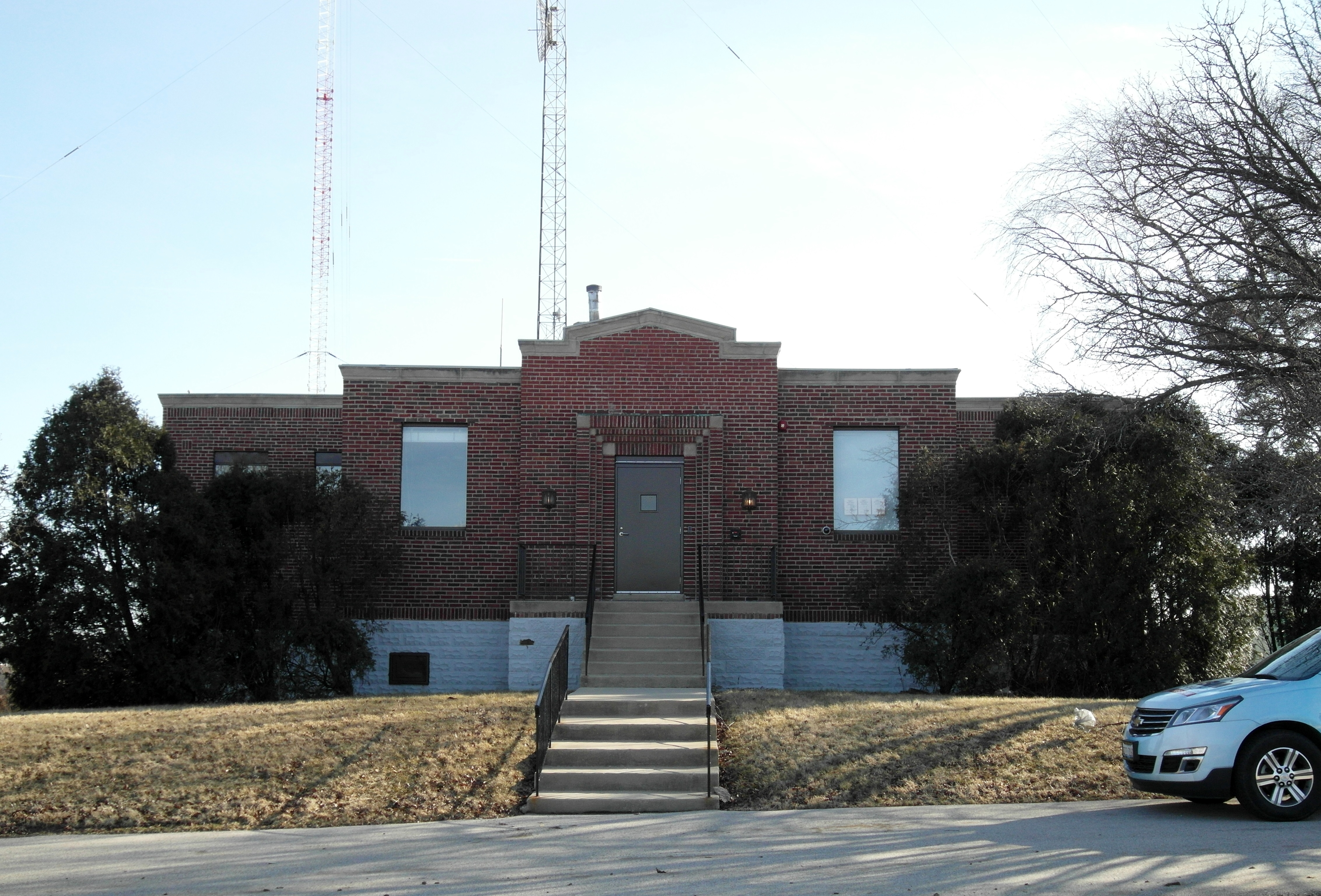 WSCR & WBBM's transmitter building in Bloomingdale Township. Originally the transmitter building of KYW.